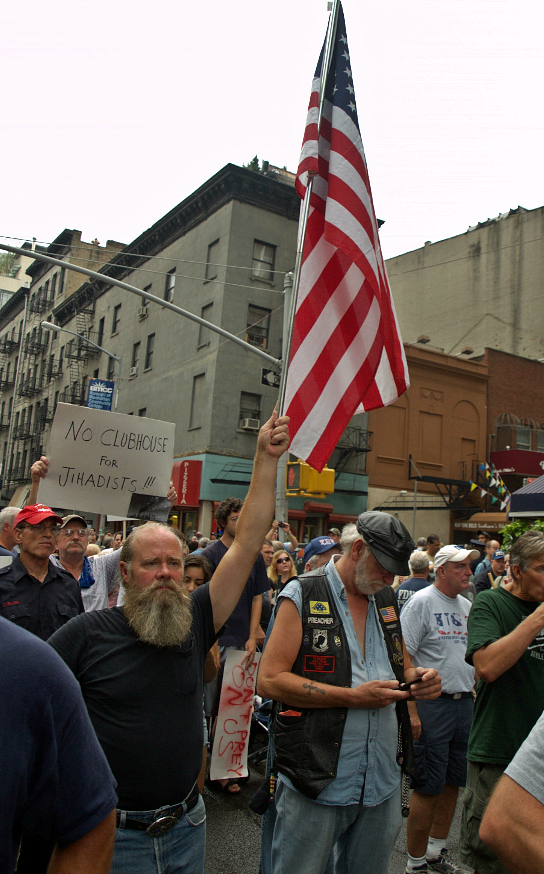 Photos of the Sunday, August 22, 2010 Cordoba House protest. (About David Shankbone)